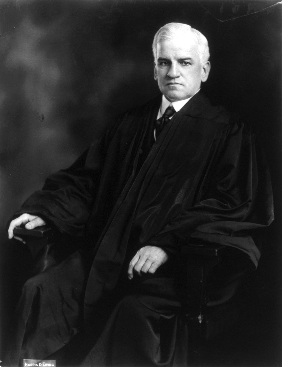 John Hessin Clarke, three-quarter length portrait, seated, facing left, wearing Justice's robe